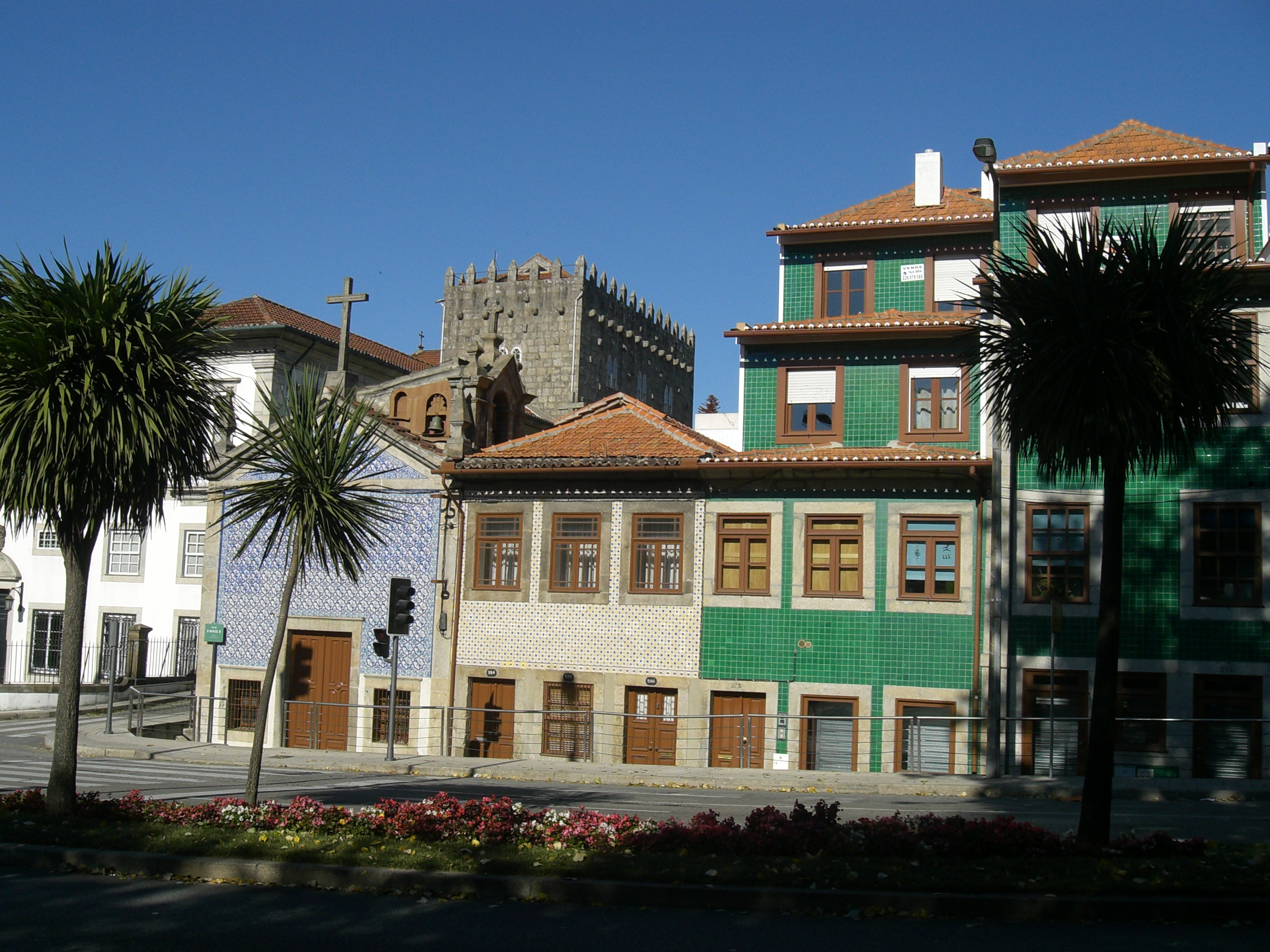 Houses in Porto, Portugal